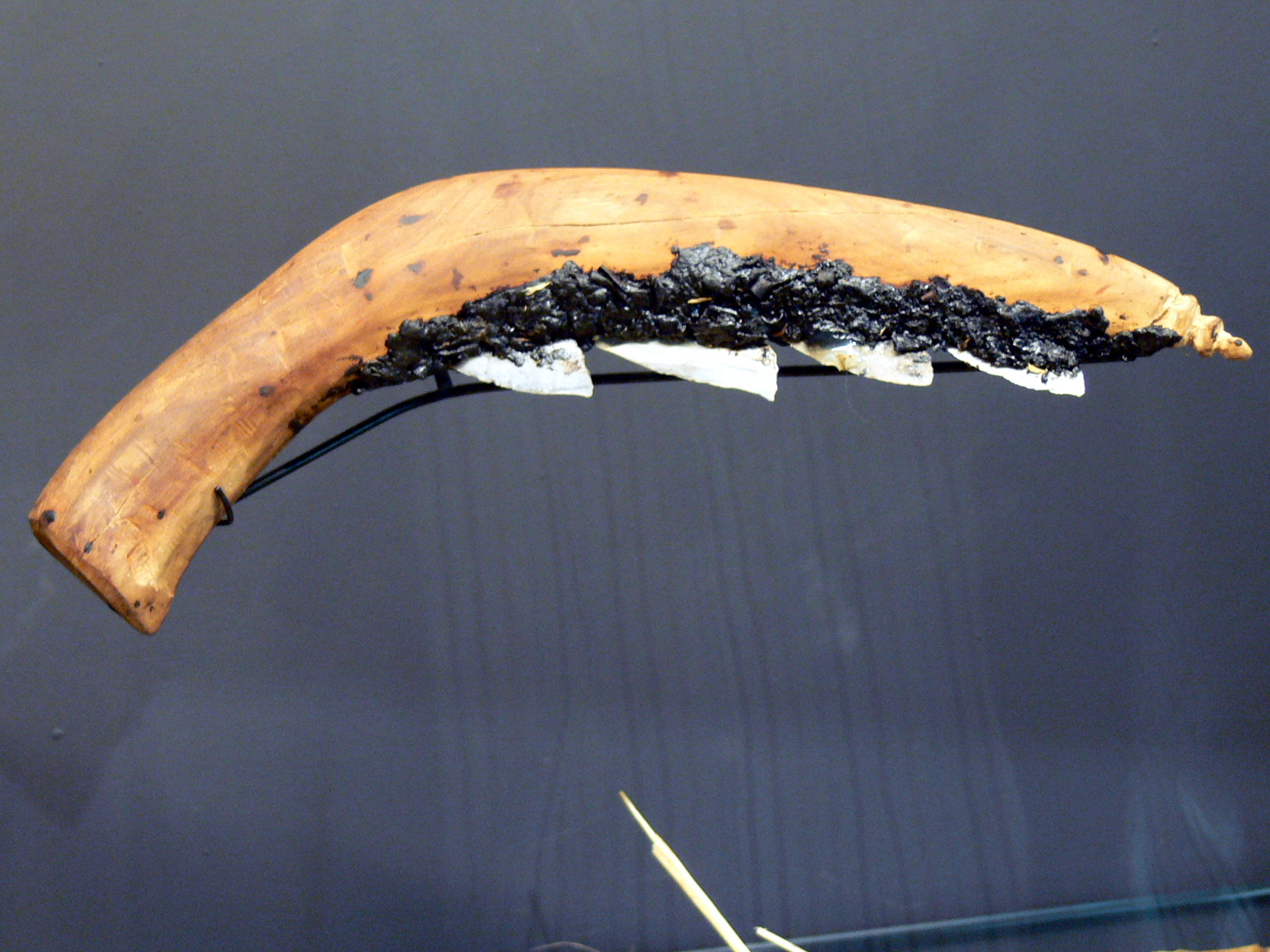 Museum Quintana. Neolithic sickle.